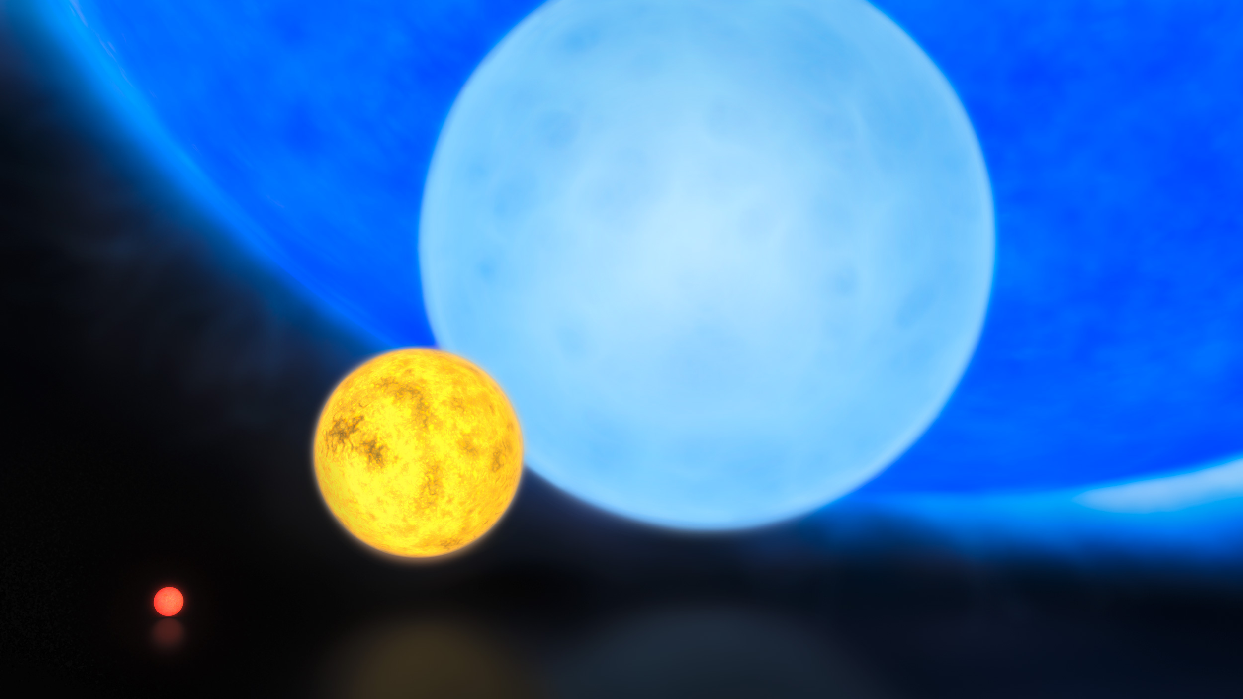 relative sizes of young stars, from the smallest “red dwarfs”, weighing in at about 0.1 solar masses, through low mass “yellow dwarfs” such as the Sun, to massive “blue dwarf” stars weighing eight times more than the Sun, as well as the 300 solar mass star named R136a1